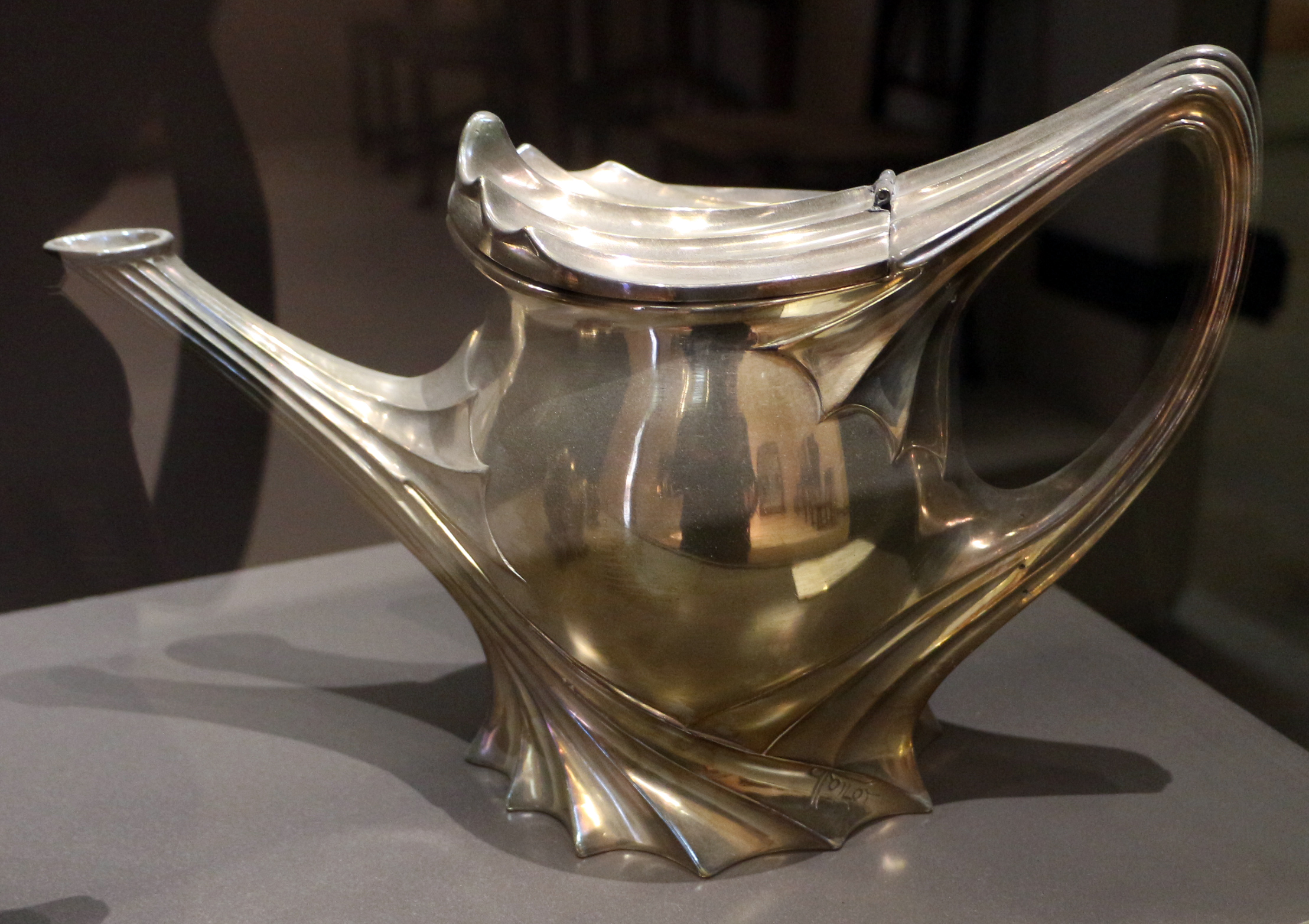 Decorative arts in the Musée d'Orsay